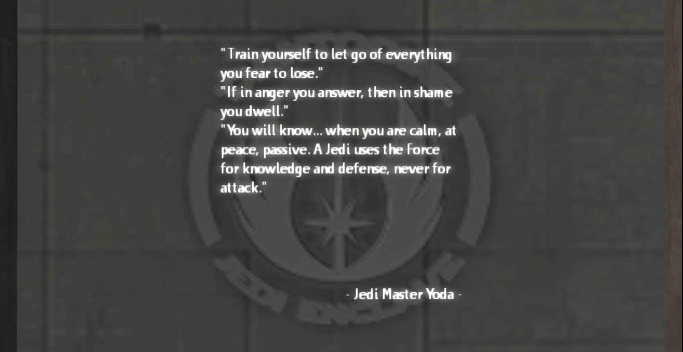 Quotes from Yoda, one of sevaral quotes from several Jedis, all of them written on the walls in the Jedi temple in the planet of Dantooine, in the virtual world of Second Life.